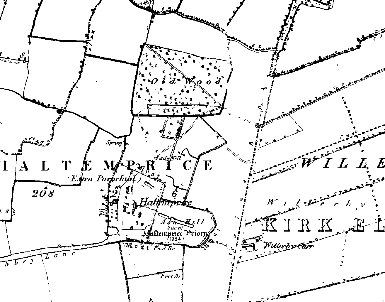 Image produced from the service with permission of Landmark Information Group Ltd. and Ordnance Survey An 1855 Ordnance Survey map showing the location of the Haltemprice Priory site. Note the location of the priory moats and long rectangular ponds.